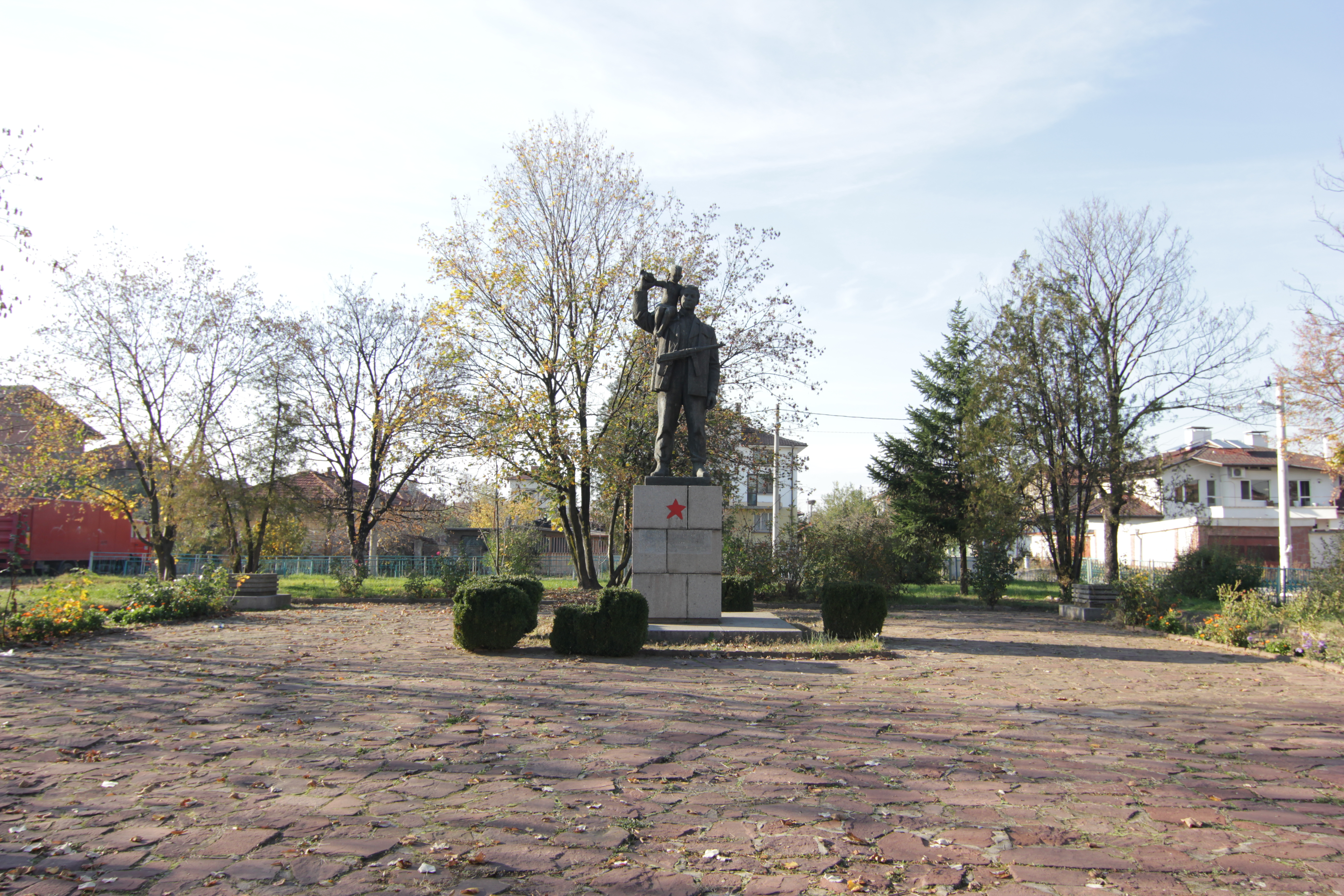 Partisan Monument in Chepintsi